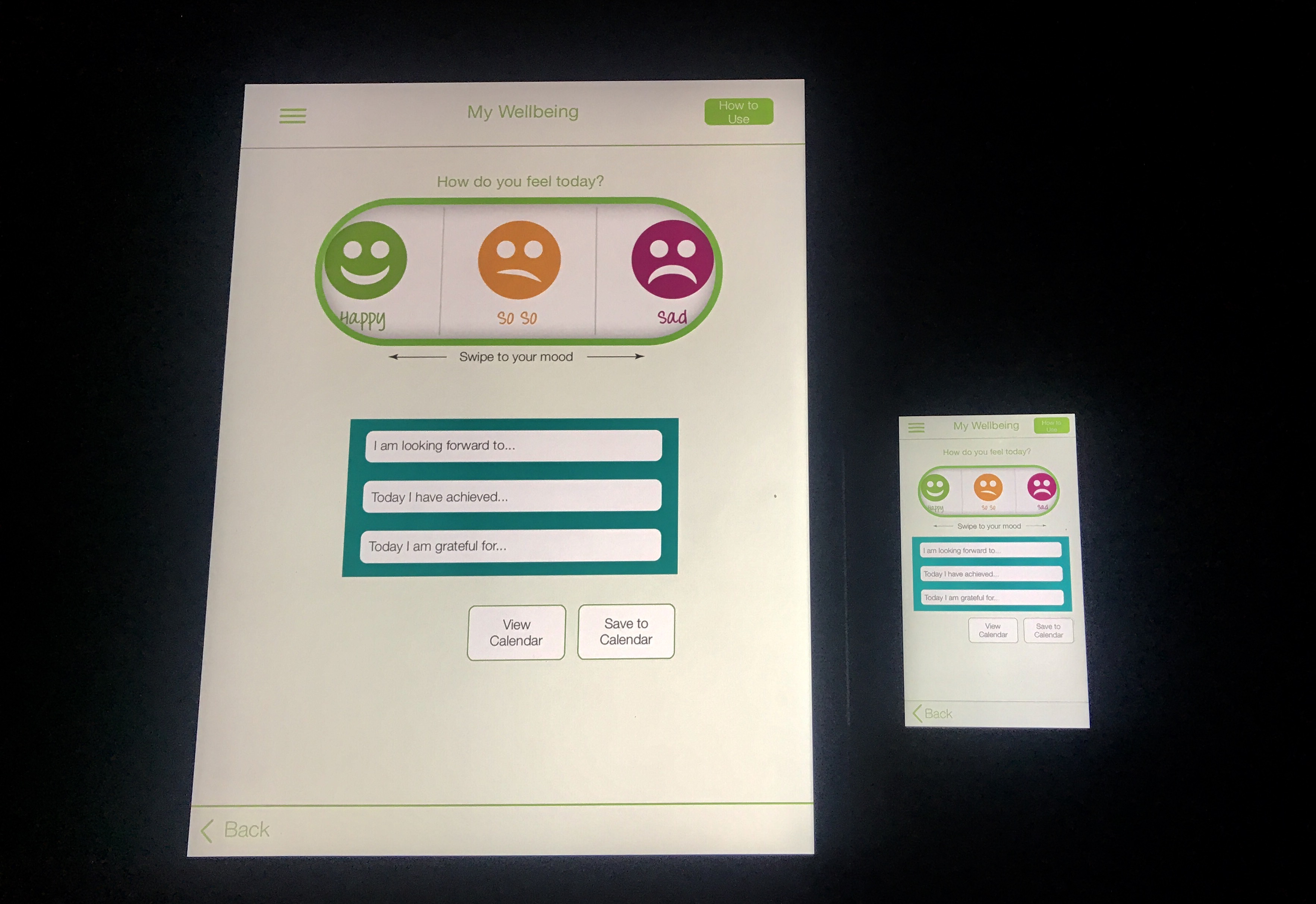 The Wellmind NHS mental healthcare app displayed on an iPad Pro and an iPhone 6S in the dark.